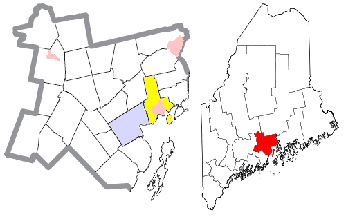 Map of the divisions of Waldo County, Maine, United States, with the town of Searsport highlighted in yellow. The city of Belfast is light blue; other towns are white; and pink areas are census-designated places within towns. The pink area surrounded by Searsport (also a part of the town) is the census-designated place of Searsport.